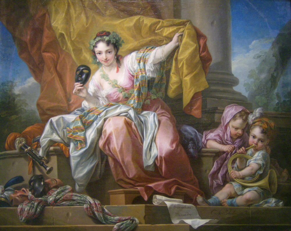 Allegory of Comedy - a picture in Pushkin Museum, Russia, No741